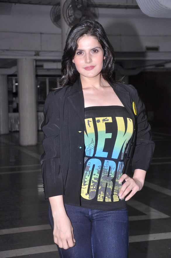 Zarine khan shankar ehsan loy concert